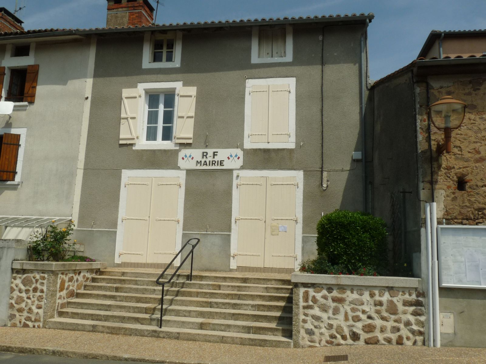 town hall